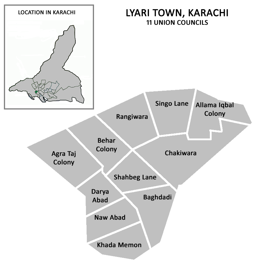 Union councils of Lyari Town, Karachi.